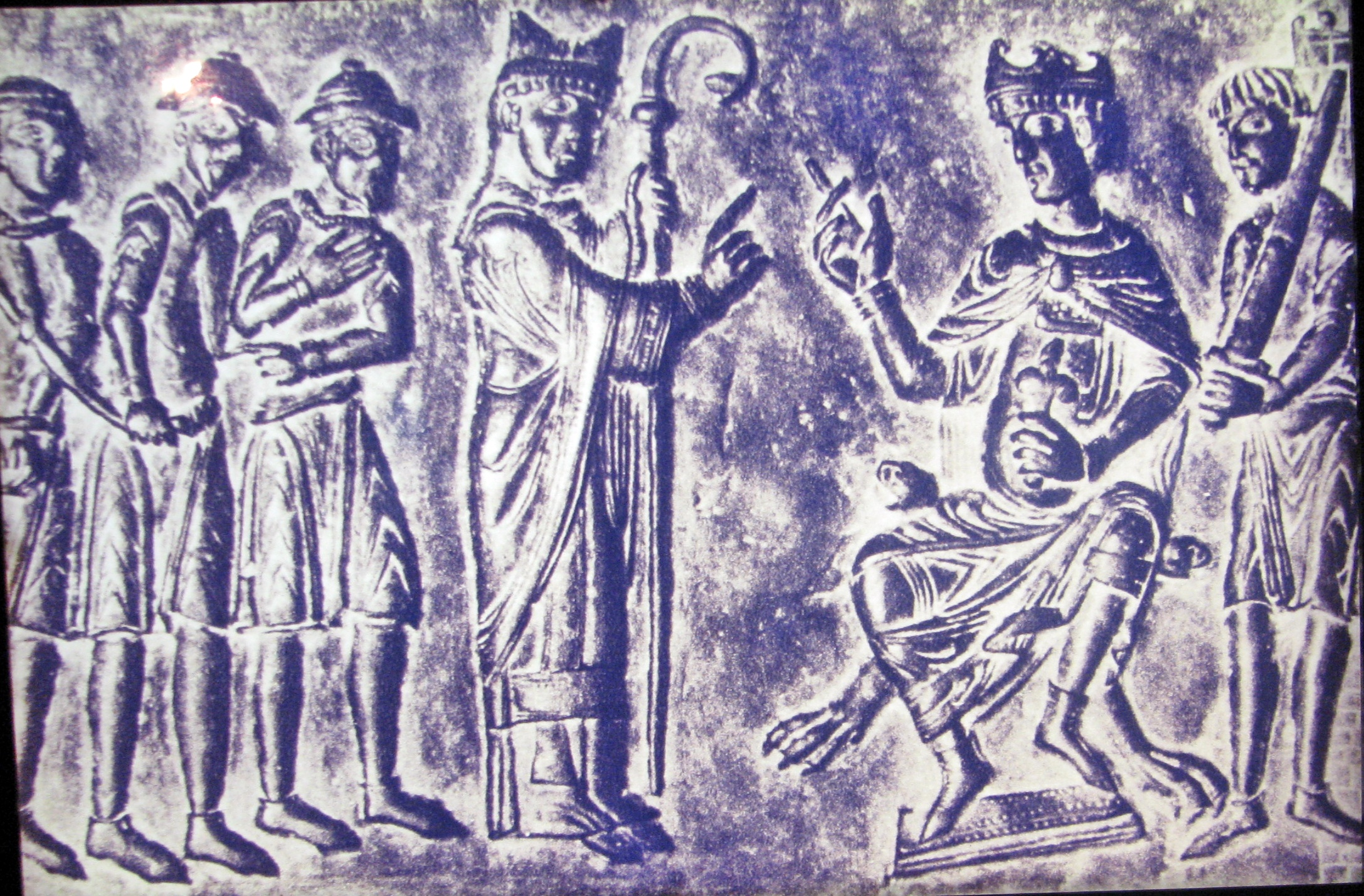 Exhibit at the Diaspora Museum, Tel Aviv - Beit Hatefutsot. The museum note says "A Jewish slave trader being presented to Boleslas of Bohemia".